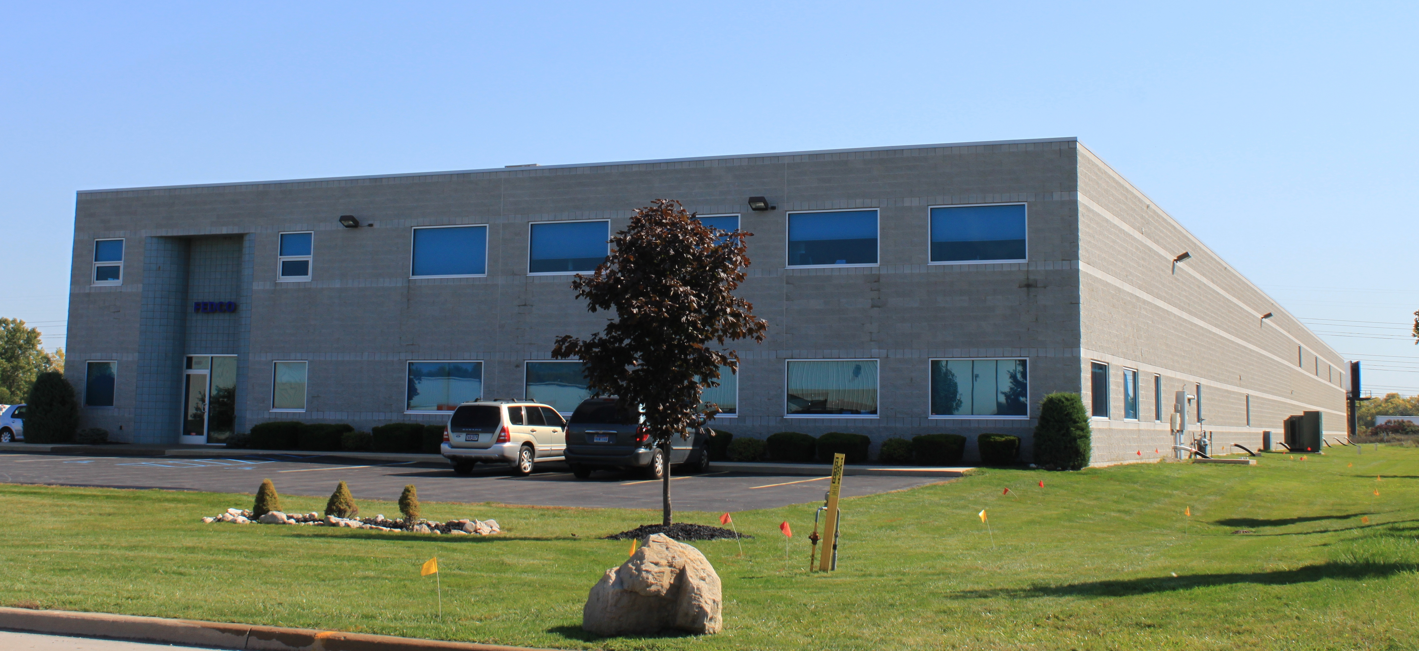 Fluid Equipment Development Company (FEDCO) headquarters building, 800 Ternes Drive, Monroe, Michigan.